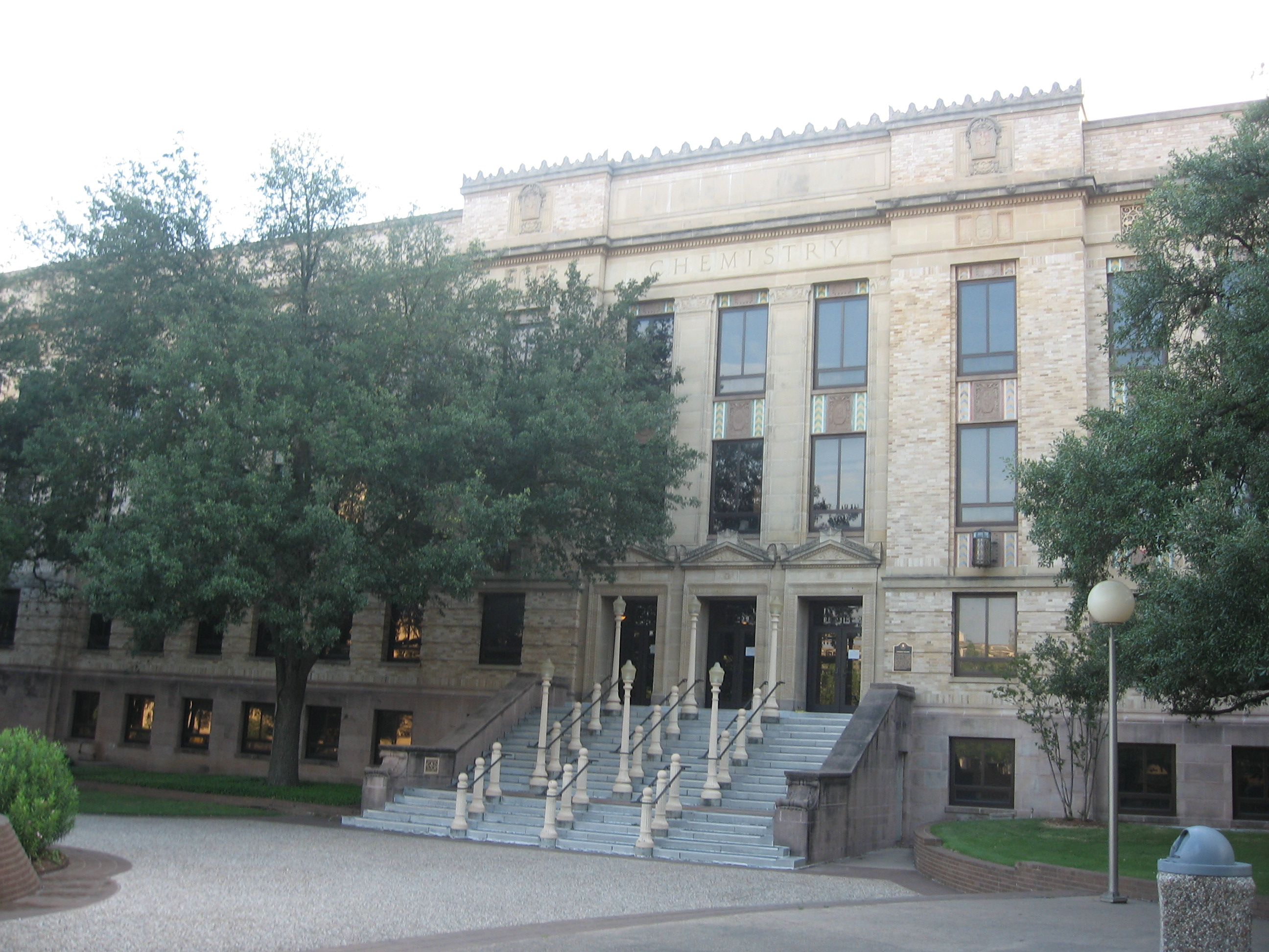 Texas A&M Chemistry Building A